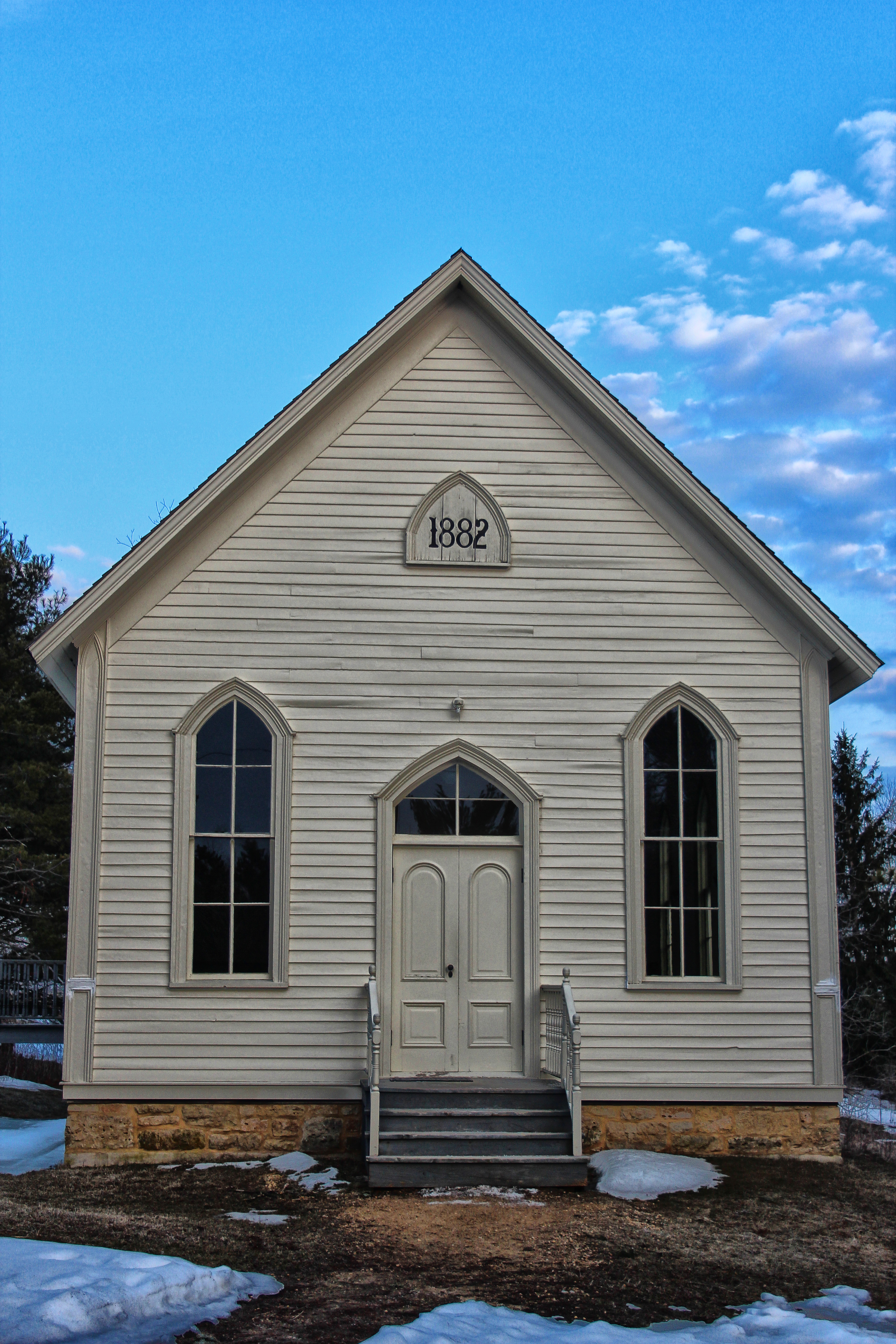 Plum Grove Primitive Methodist Church, Co. Rd. BB, 0.7 mi. S of jct. with US 18/151 Ridgeway